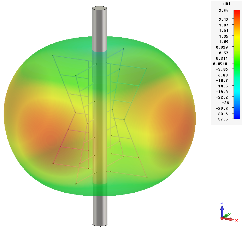 Farfield radiation pattern of a batwing antenna in free space, demonstrating near-omnidirectionality.